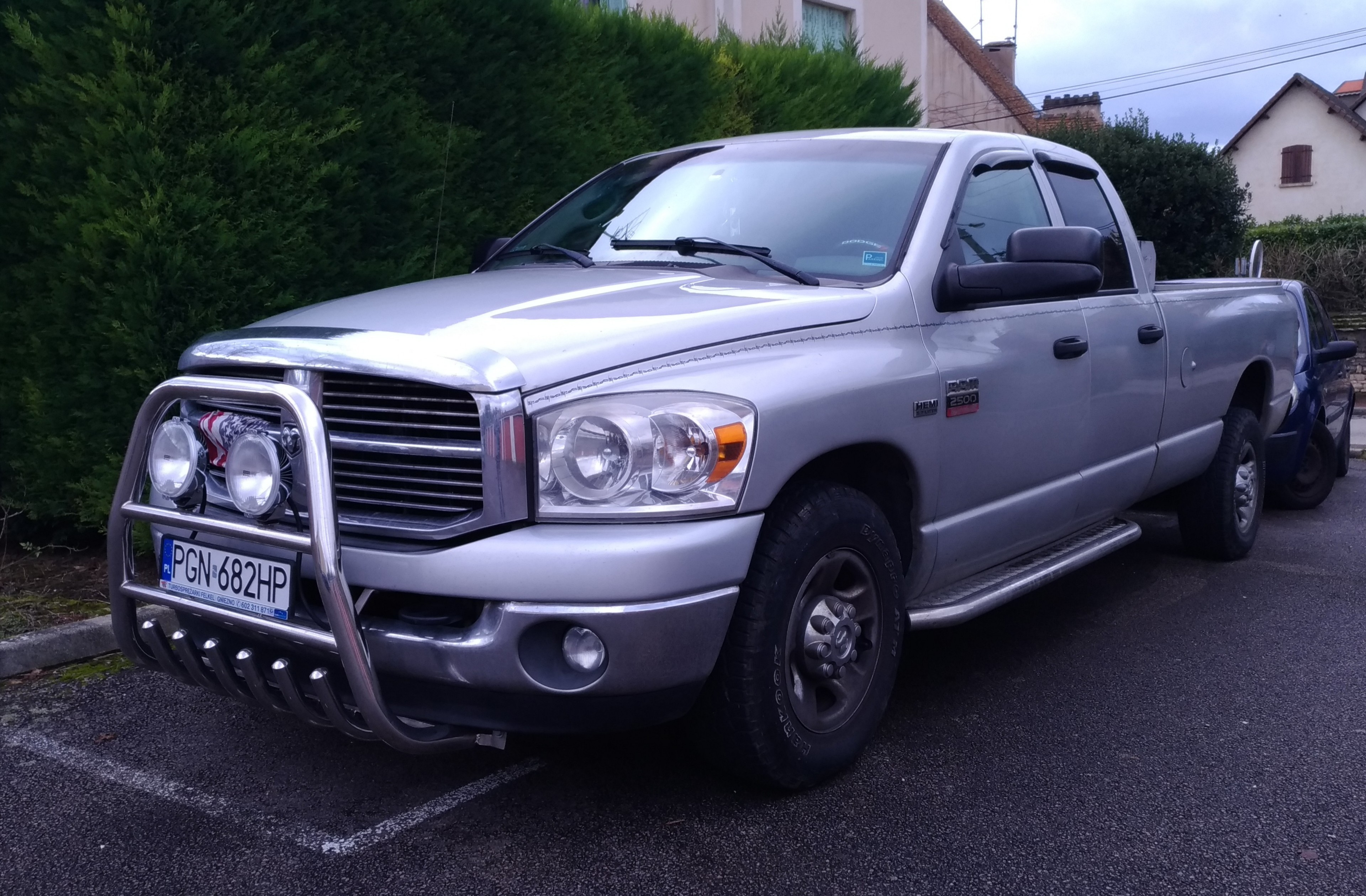 Dodge RAM 2500 Heavy Duty